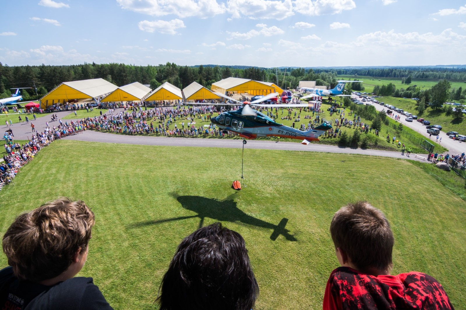 Estonian Aviation Museum during Estonian Aviation Days 2016. Estonian Border Guard Flight Squadron rescue helicopter AgustaWestland AW139.